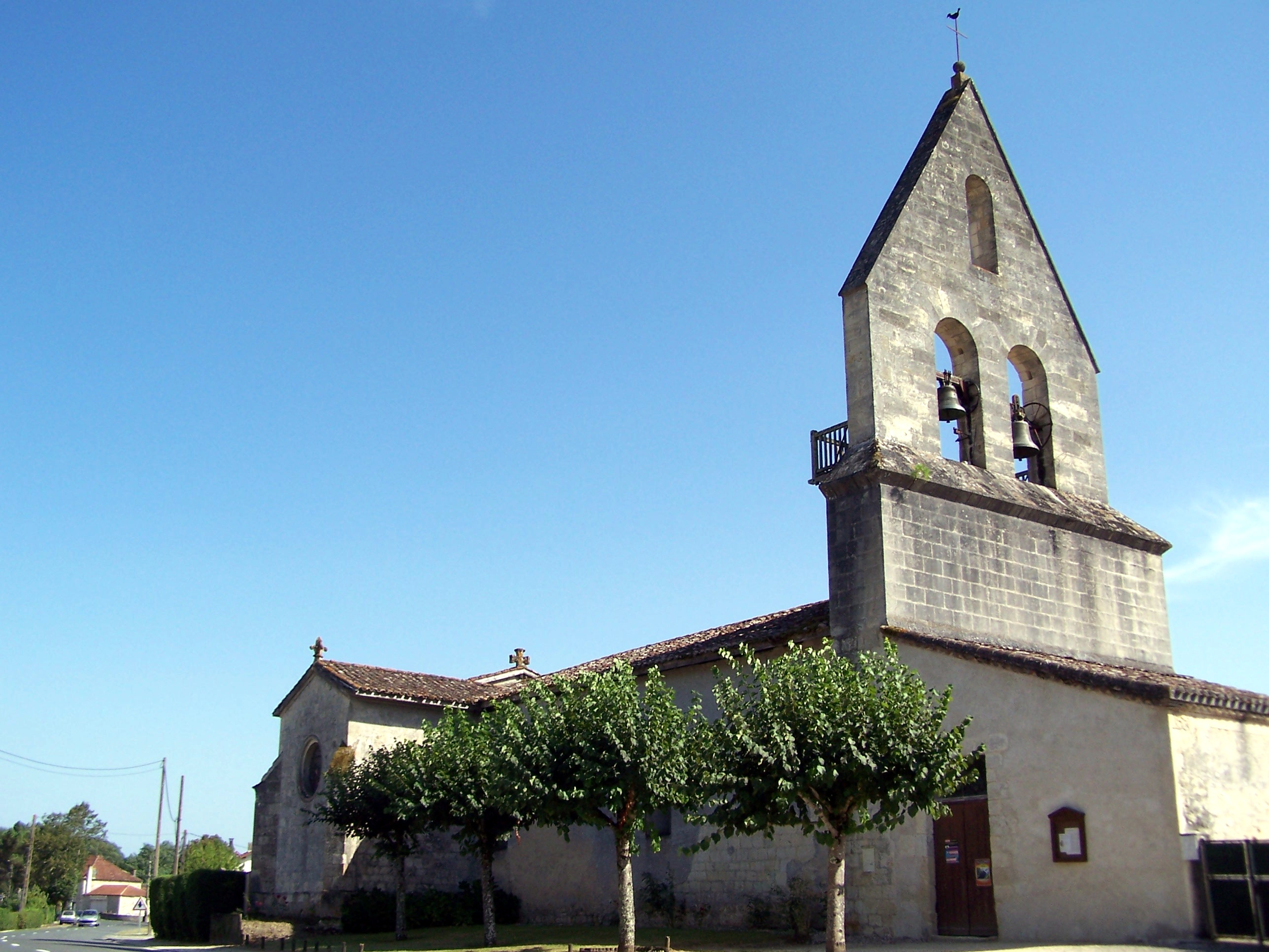 Church Saint-Michel of Saint-Michel-de-Castelnau (Gironde, France)